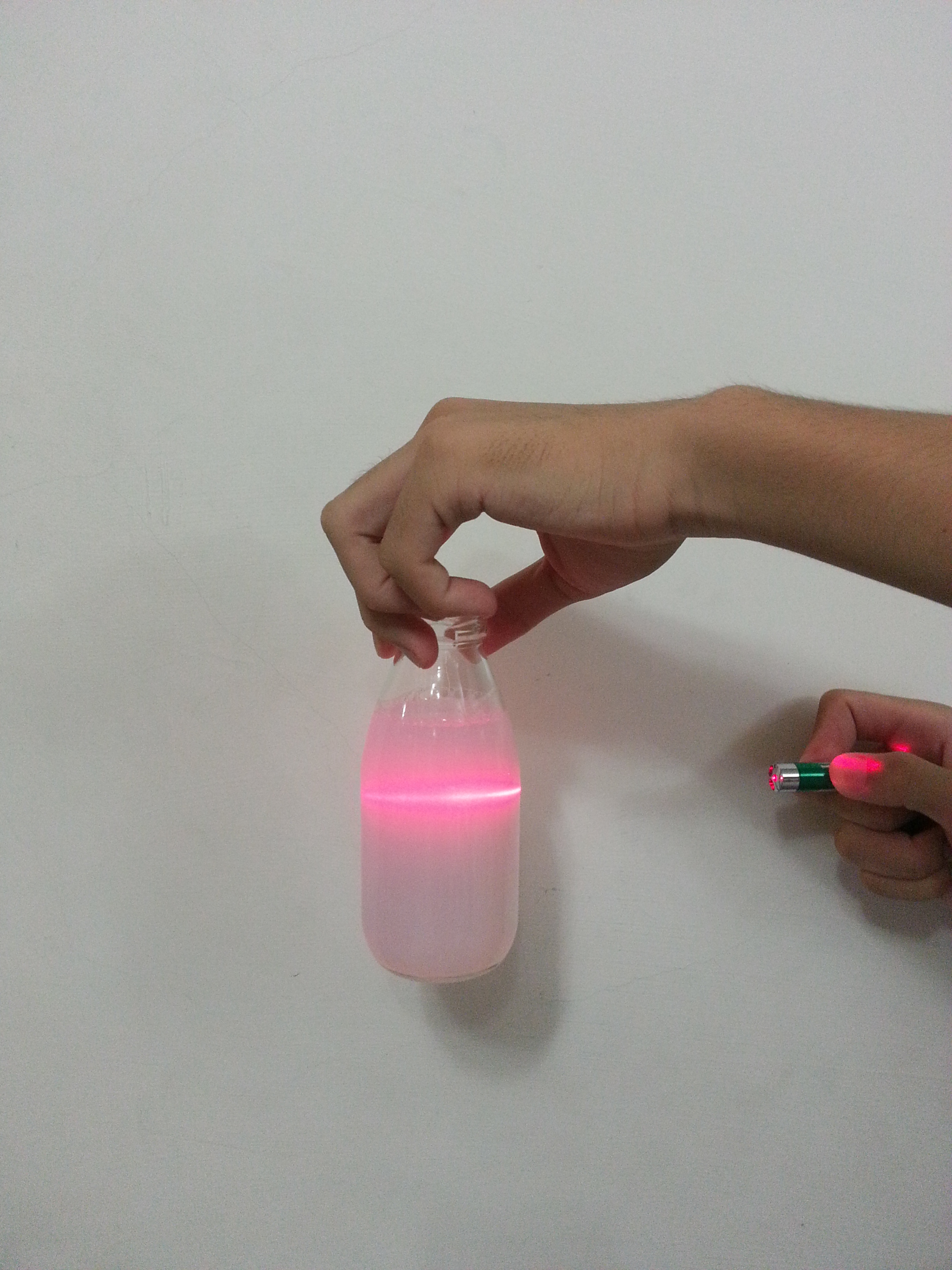 Stearic acid colloid